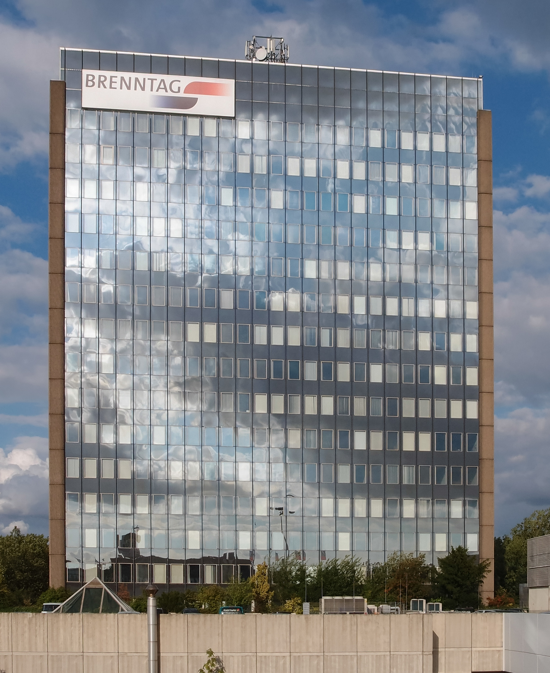 Head office of Brenntag AG in Mülheim an der Ruhr